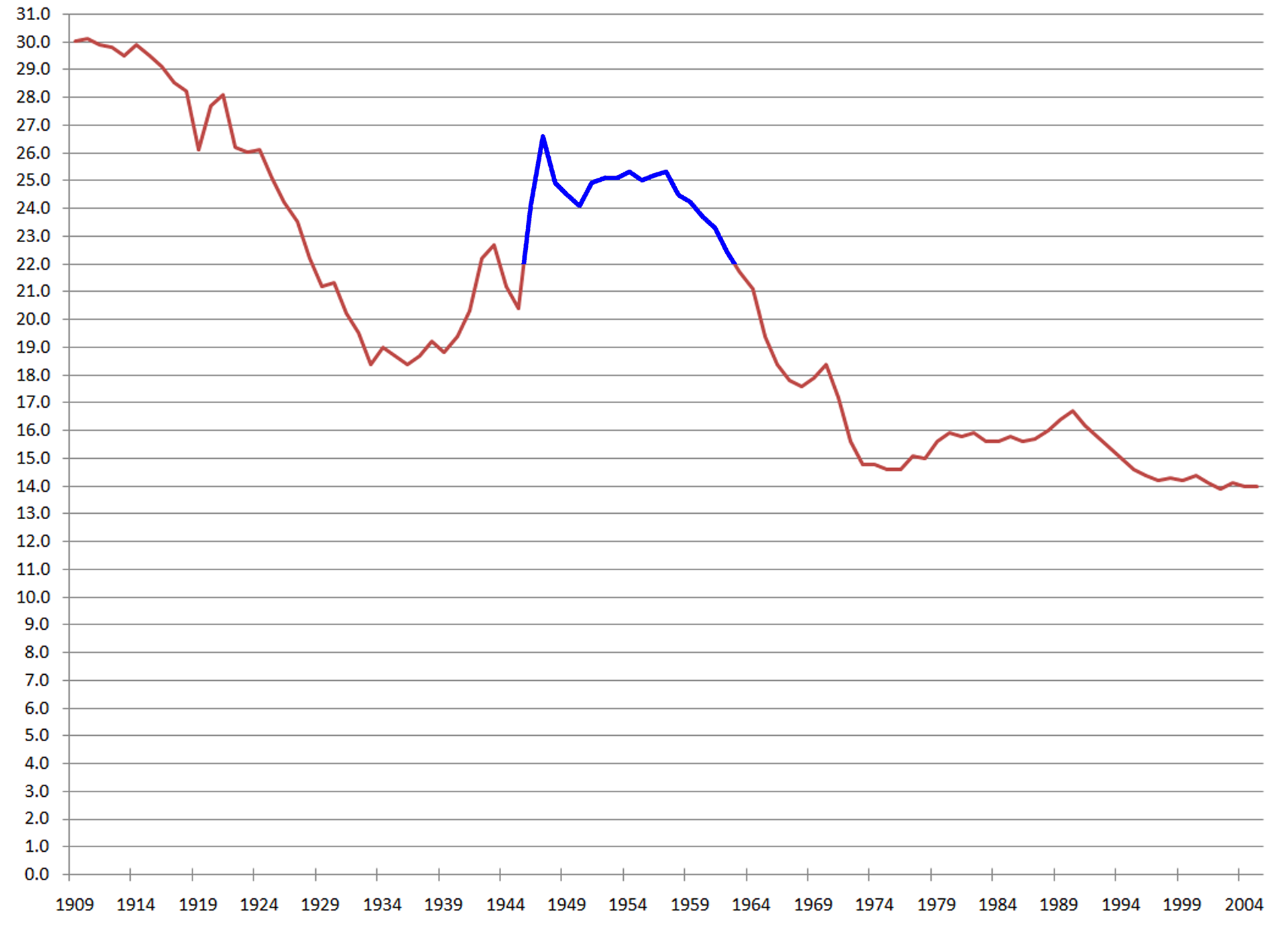 The number of births per thousand people in the United States. The blue segment is defined as the Baby Boomer by the United States government.